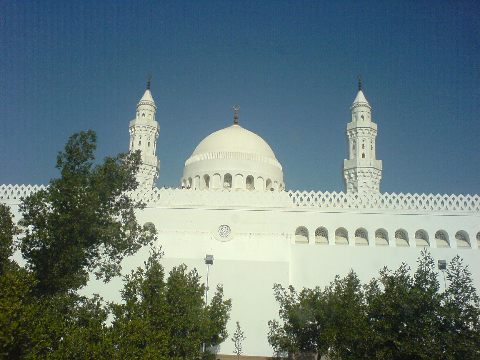 A front view photograph of Masjid Al Qiblatain